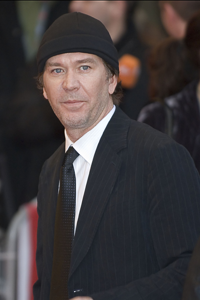 Timothy Hutton Premiere of "When a man falls in the forest" at the Berlinalepalace, Marlene-Dietrich-Platz, Berlin